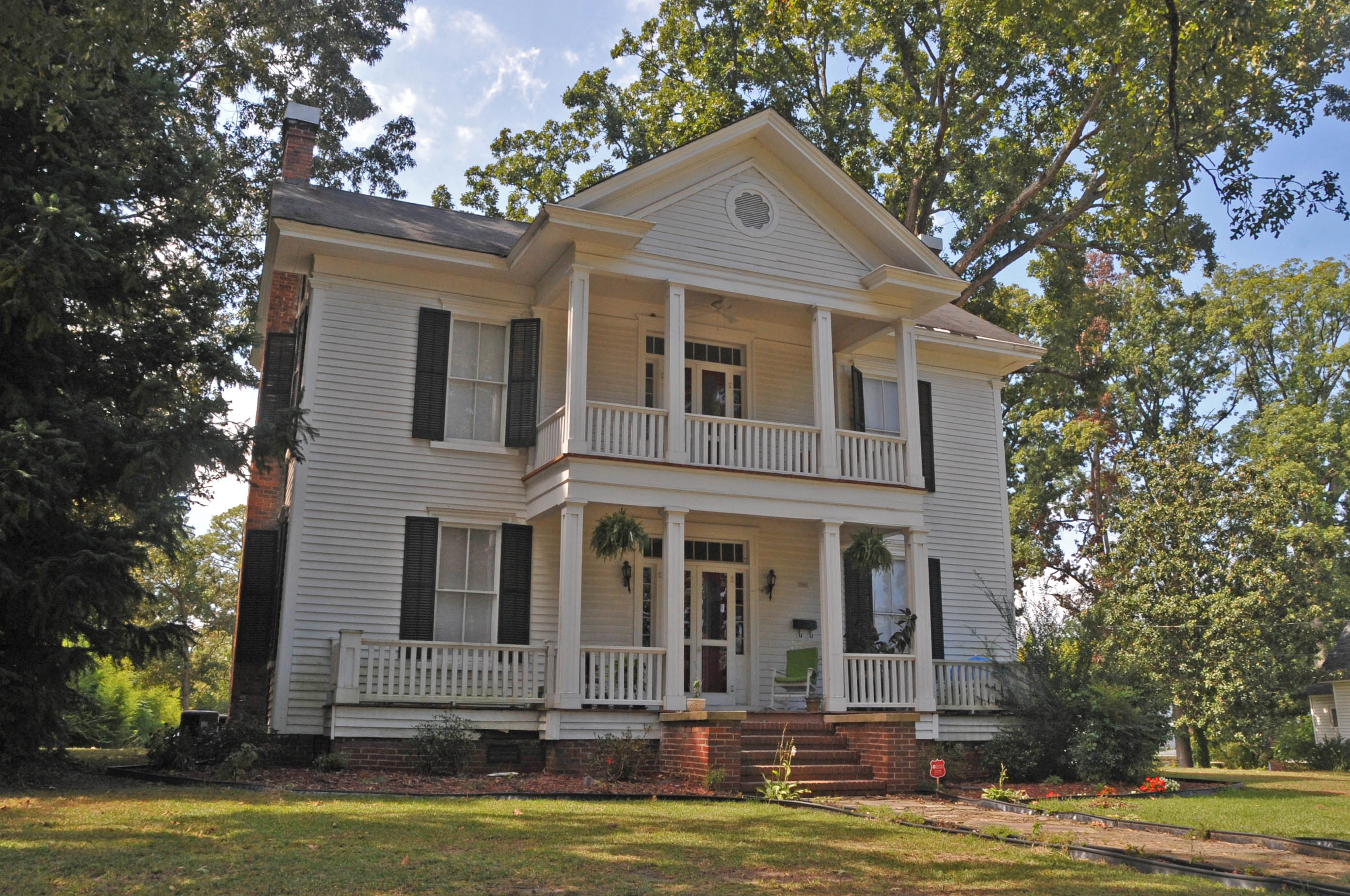 JOHN D., MCIVER HOUSE; PROMINENT NAME IN THE SANFORD AREA WITH STREETS NAMED AFTER HIM